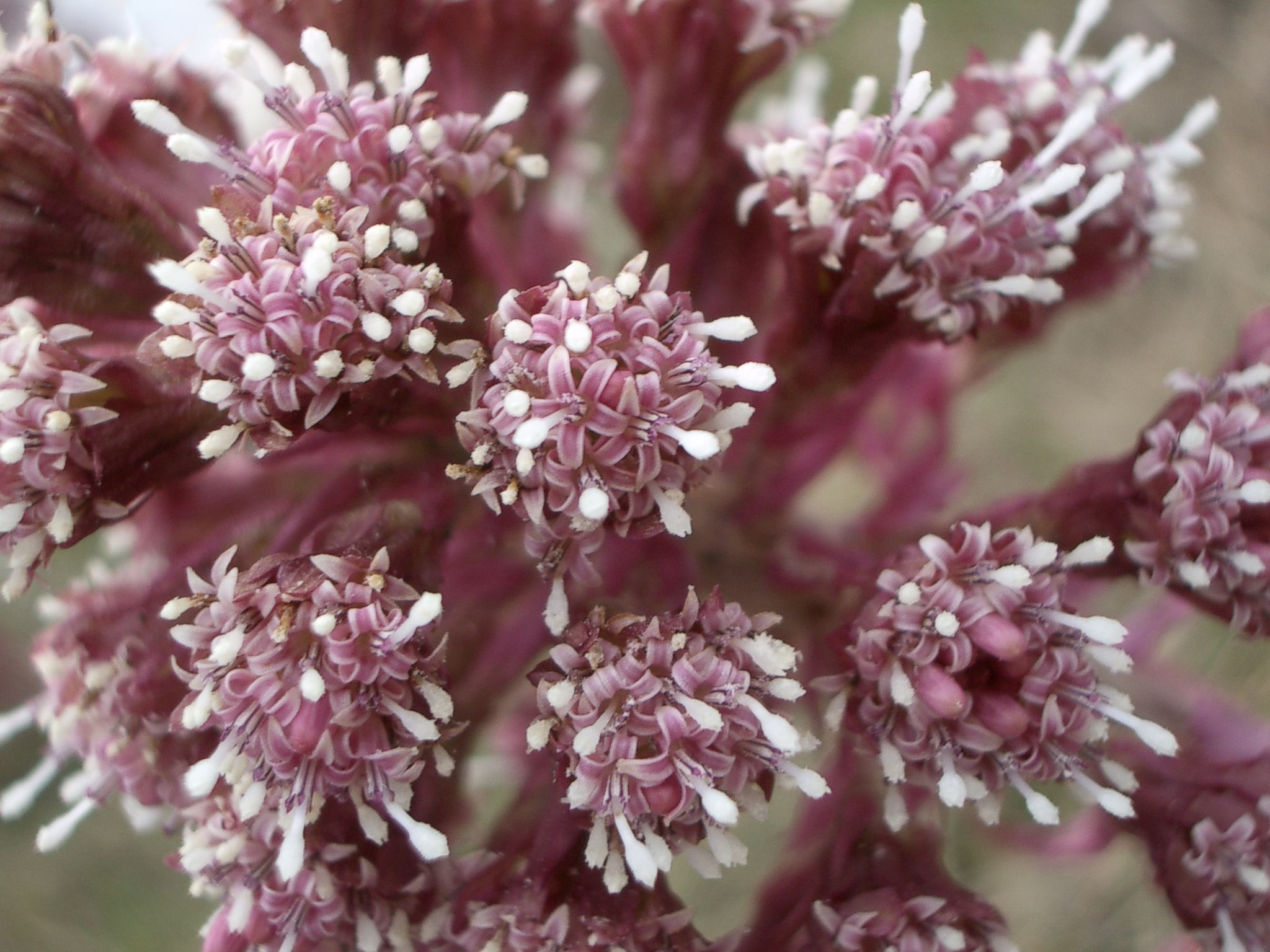 Description: Petasites paradoxus bloom macro. Starnberg.